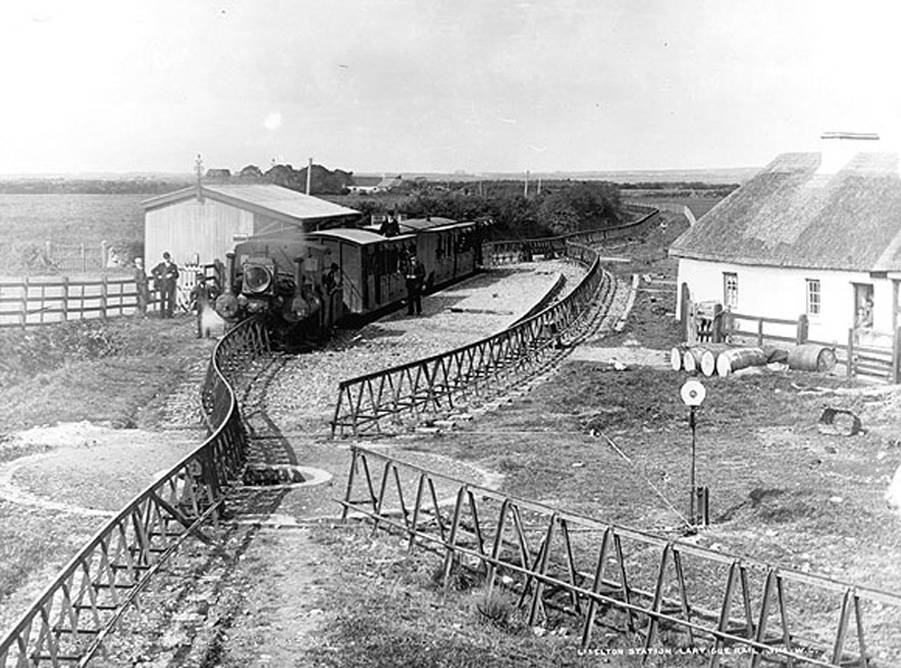 Photo taken at the tiny Lisselton Station, Co. Kerry. Date: Circa 1890 NLI Ref.: LIMP 3116